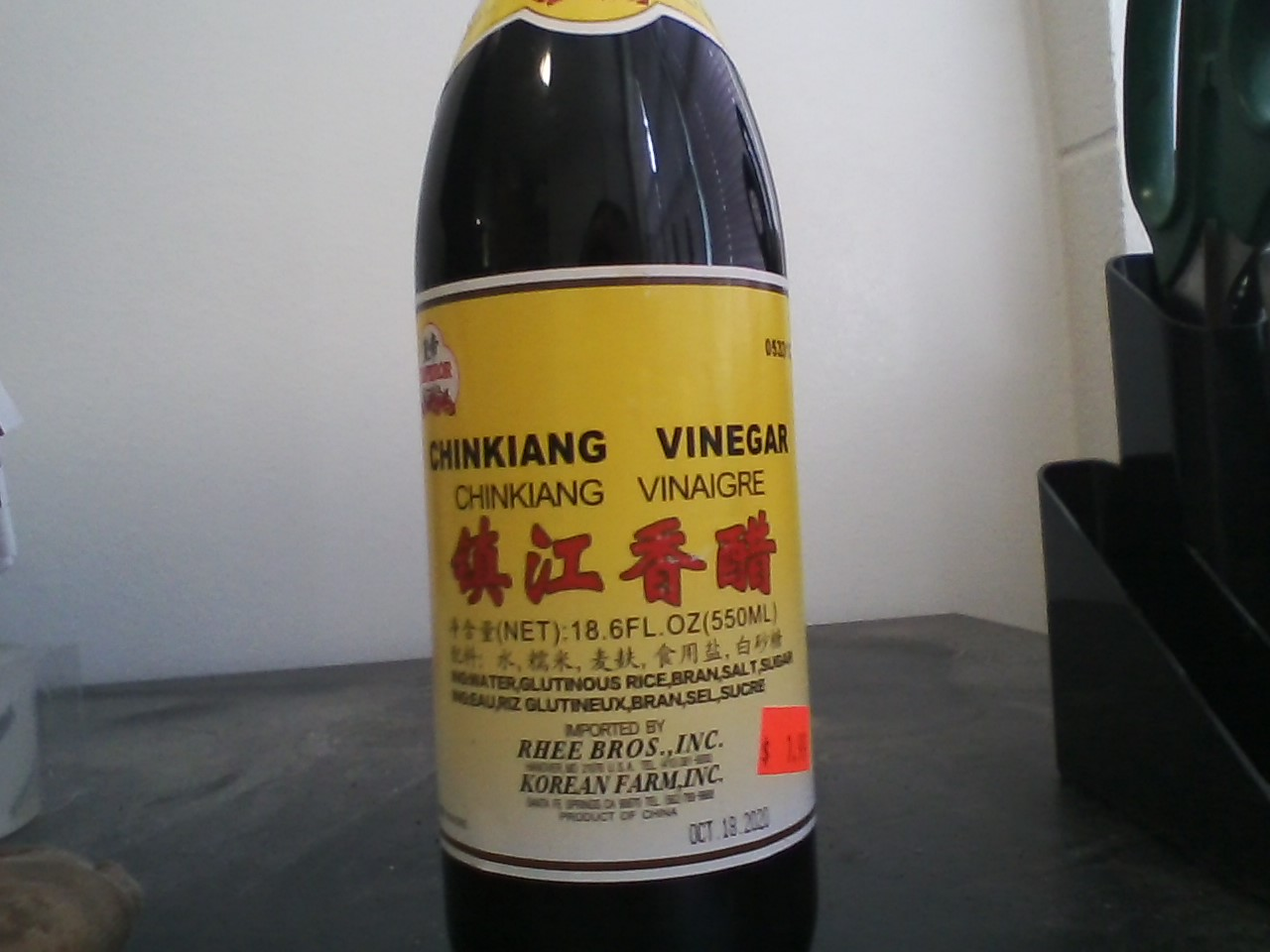 The label does not have any information about the percentage of acidity. The ingredients are listed as "water, glutinous rice, bran, salt, sugar" in English and French. The reverse of the bottle has the required "Nutrition Facts": a serving is 1 tablespoon, which is 5 calories; it supplies 0% of dietary requirements except 5% of sodium.